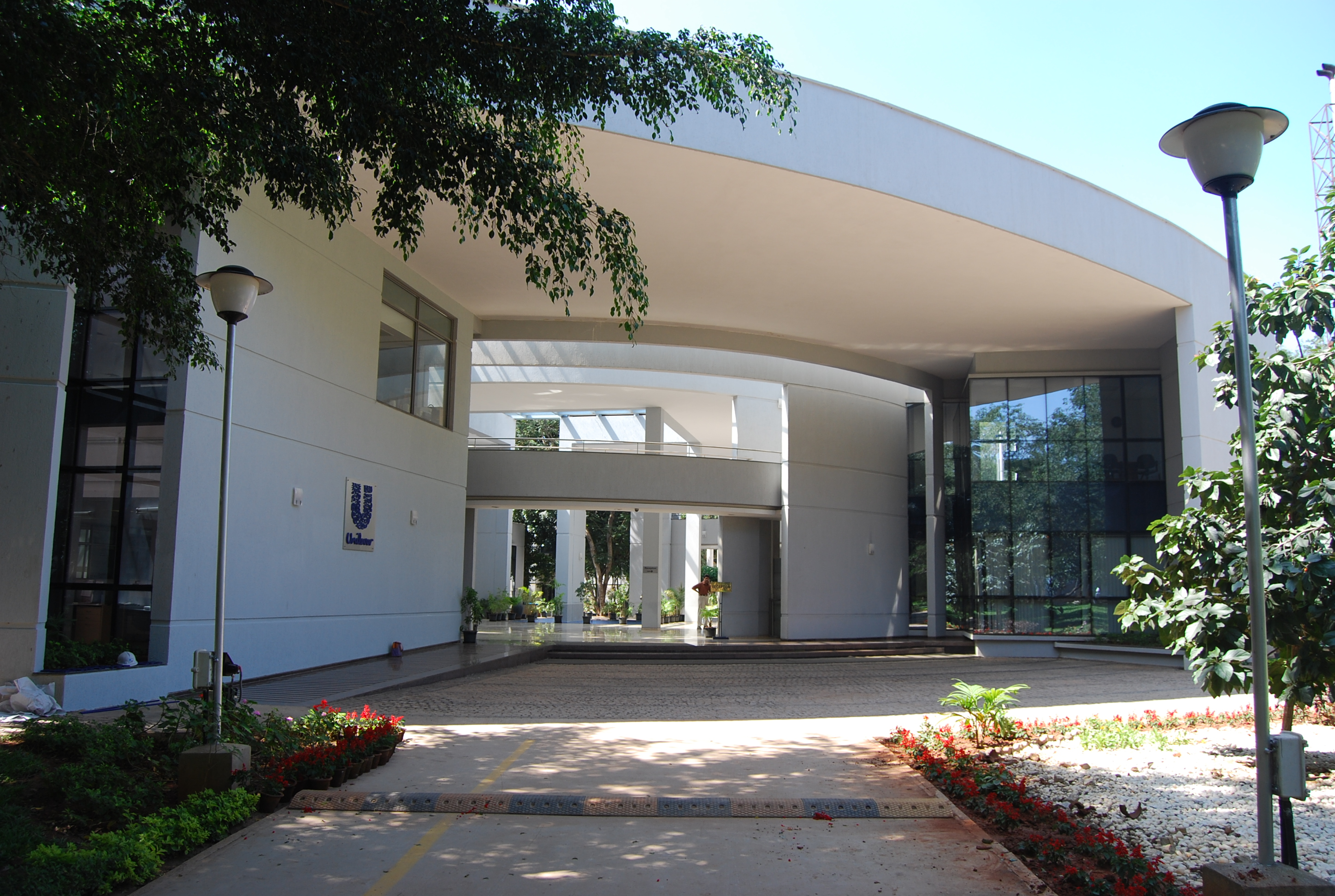 Unilever R&D Center in Bangalore